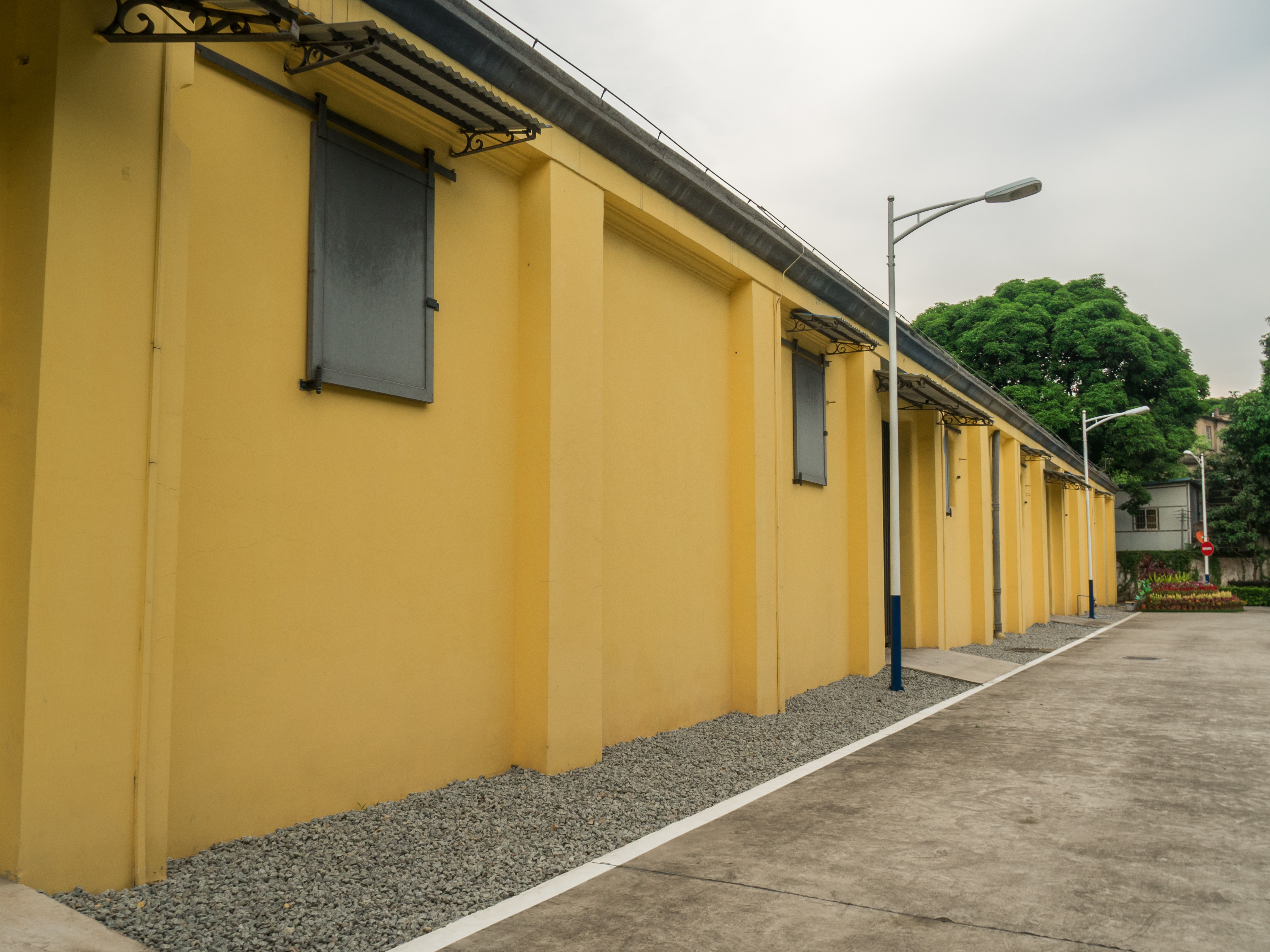 亚细亚龙唛仓旧址。位于广东省广州市芳村大道东白鹤洞新马路1号。